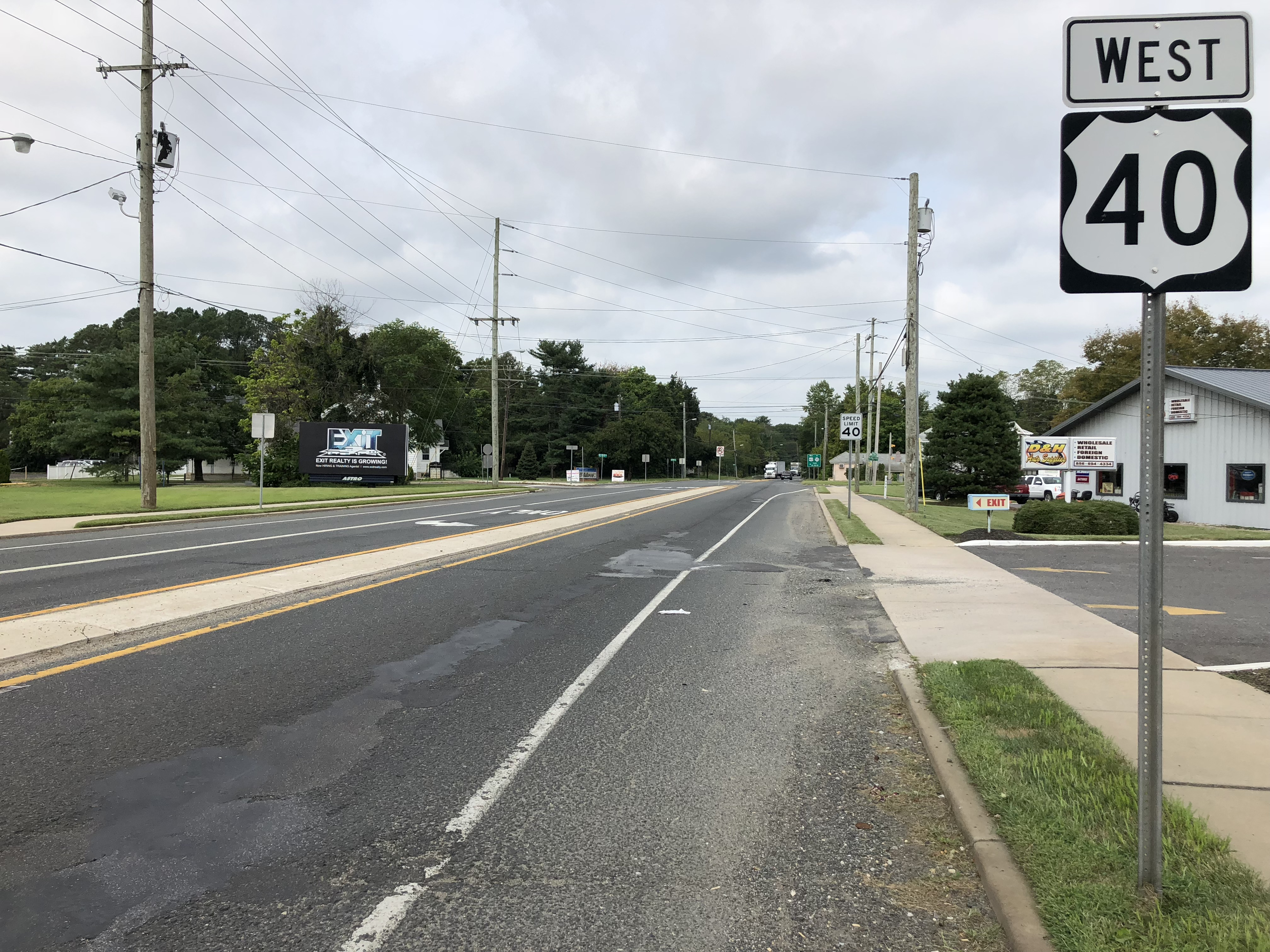 View west along U.S. Route 40 (Harding Highway) just west of New Jersey State Route 47 (Delsea Drive) in Franklin Township, Gloucester County, New Jersey